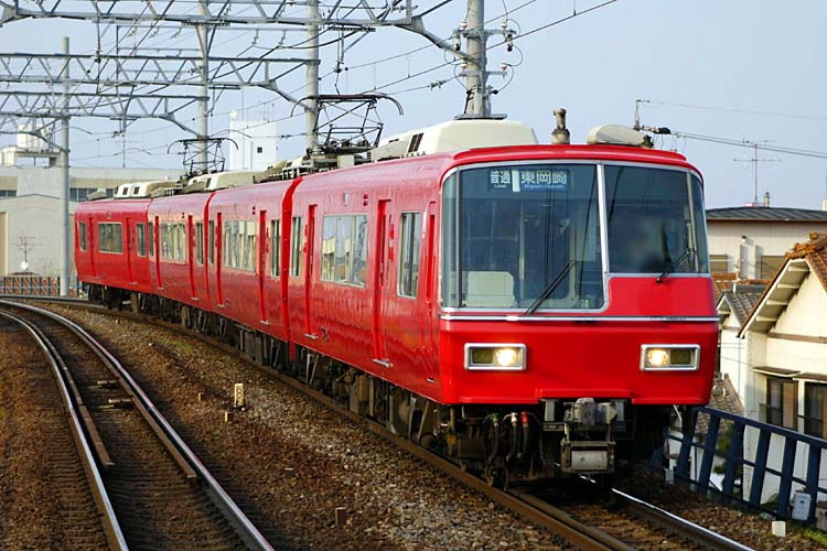 Nagoya Railway type 5700 electric car. 名古屋鉄道5700系。東枇杷島にて。